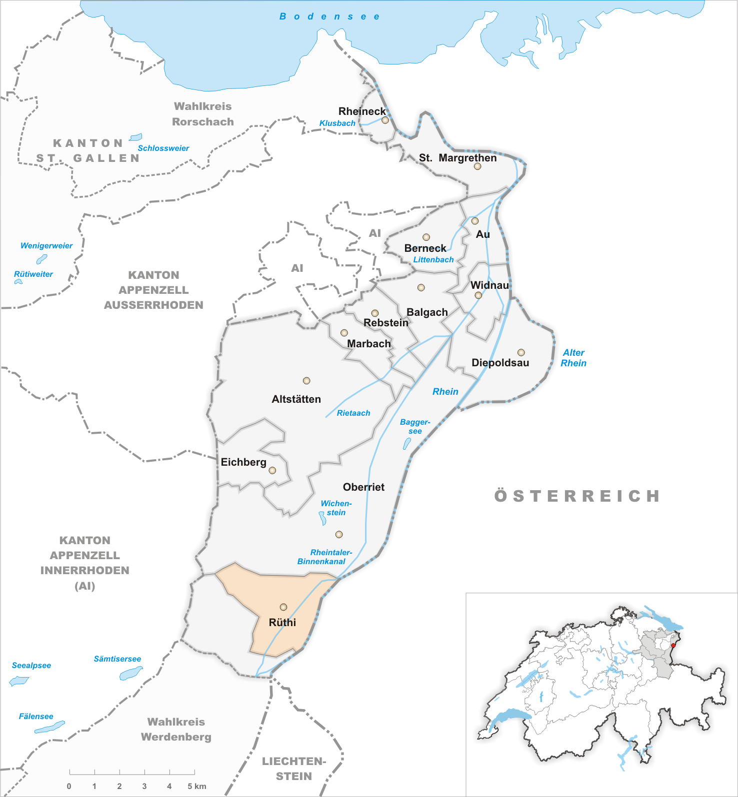 Municipality Rüthi